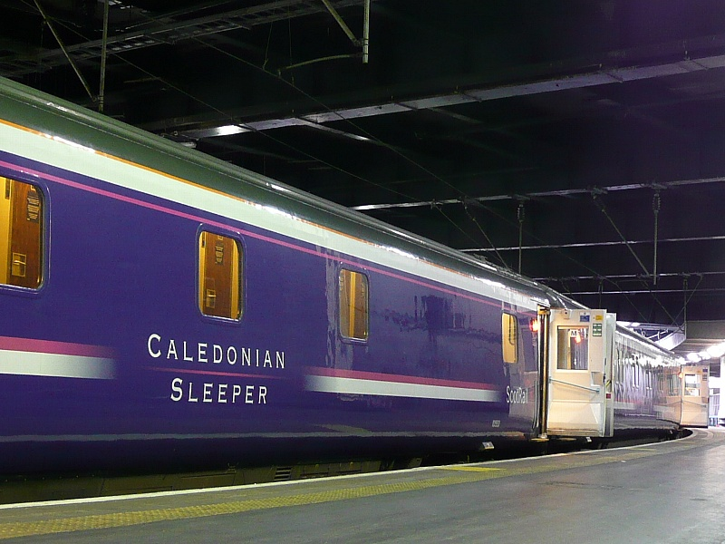 Caledonian Sleeper at Euston